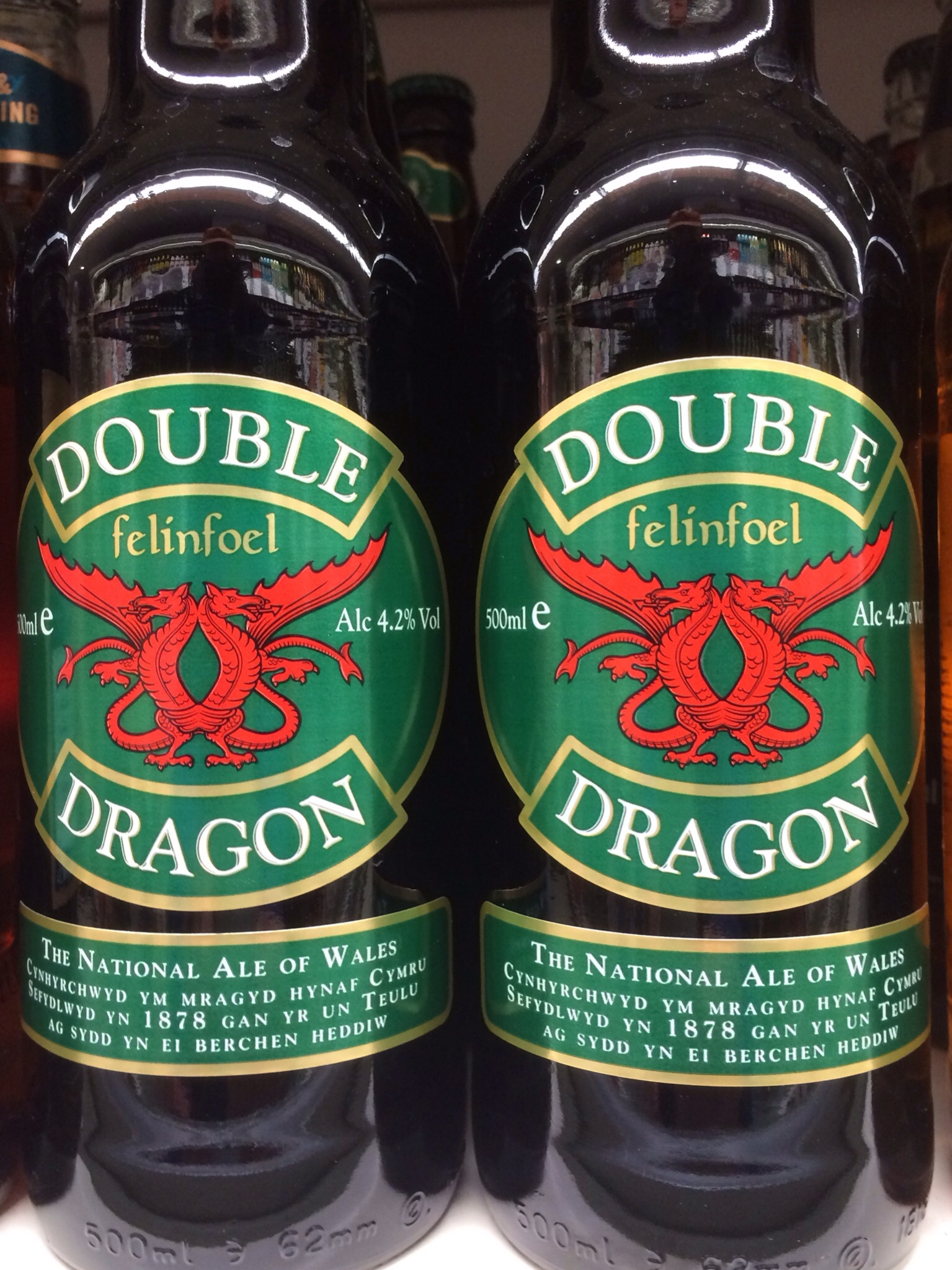 Bottles of Felinfoel Double Dragon Ale on sale in shop in Swansea